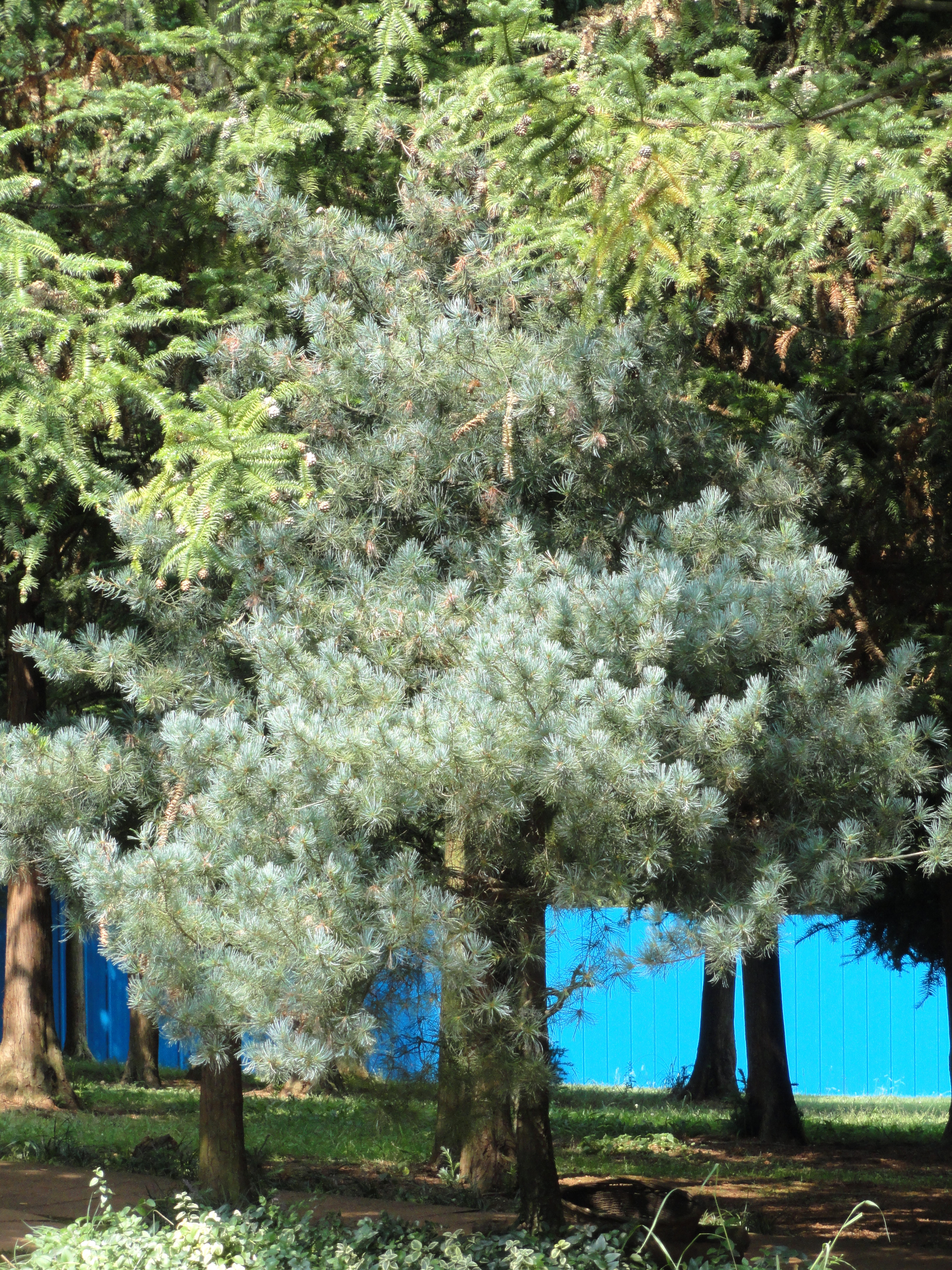 Pinus wangii specimen in the Kunming Botanical Garden, Kunming, Yunnan, China.